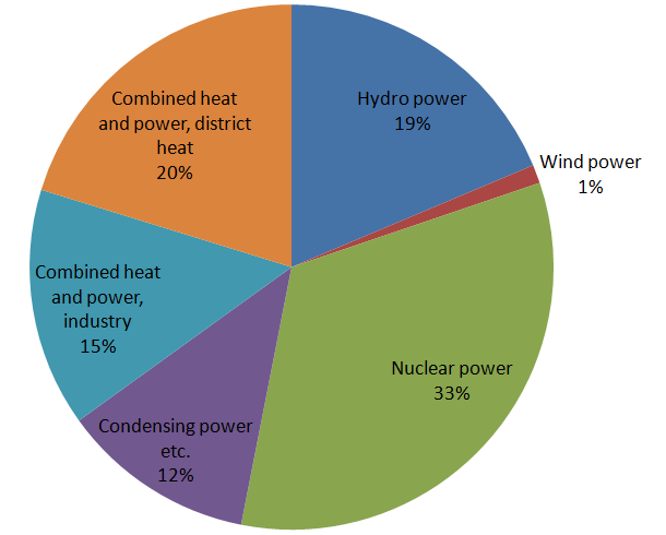 comparsion of different sources of energy supply in finland